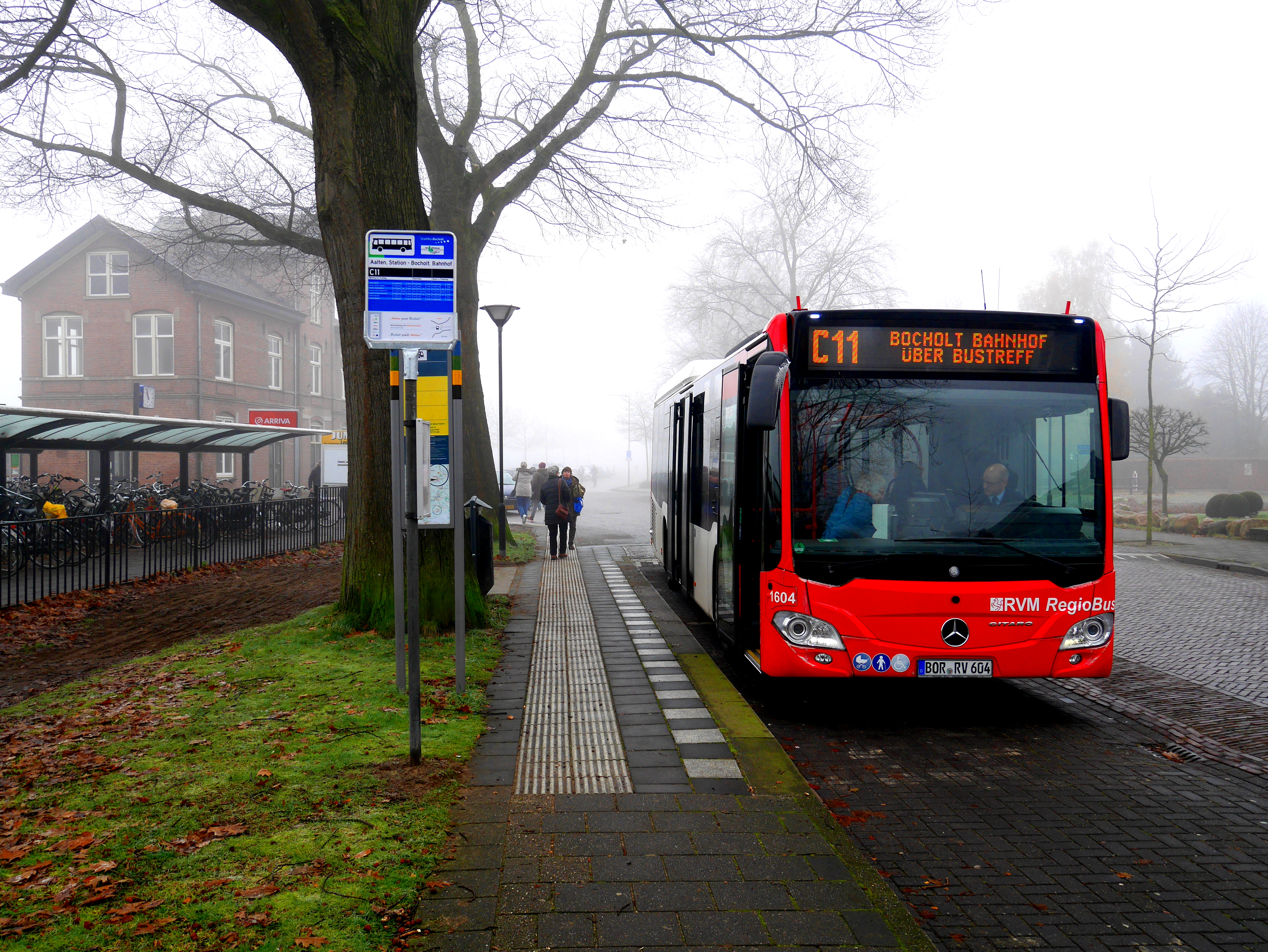 A RVM bus (Mercedes-Benz Citaro C2) on the line’s opening on route C11 at Aalten station, the Netherlands.